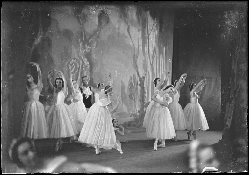 between 1936 and 1940. Condition: Good/fair, some fading.; Title from reference sources, see file 203/09/00017-02.; Part of collection: The Geoffrey Ingram collection of ballet photographs from the Ballets Russes Australian tour, 1936-1940. Dancers: Lydia Couprina also known as Phyllida Cooper; Natasha Melnikova (?) also known as Therese Moulin; Sonia Gronau also known as Sonia Orlova, see file 203/09/00017-02. Persistent URL .au/nla.pic-an24142889